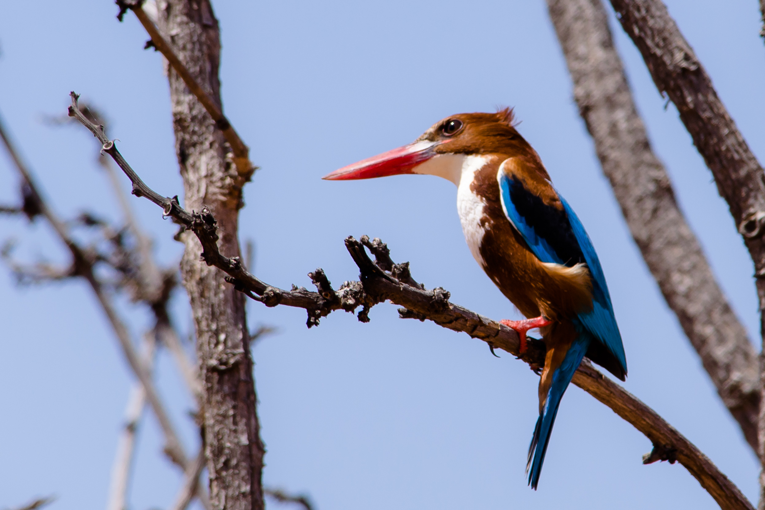 this was taken in Damoh, Madhya pradesh, India